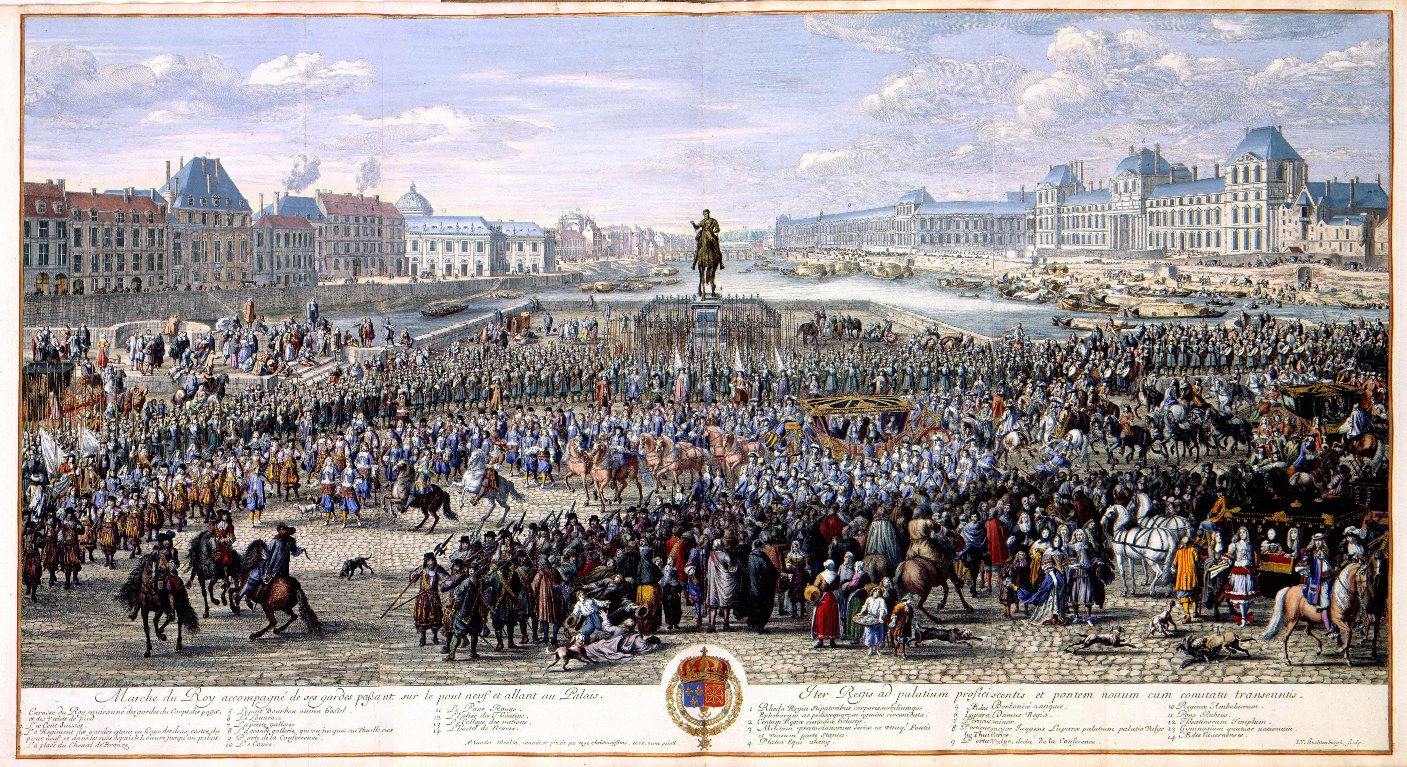 March of the King accompanied by his guards passing over the Pont Neuf in the direction of the Palace